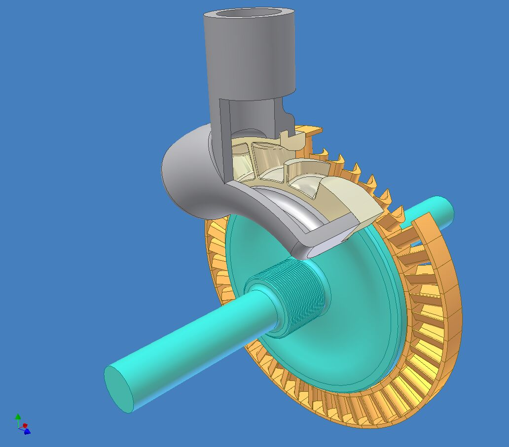 Drawing is made by Peter Kaboldy Simplified model of a single stage Curtis turbine in section.